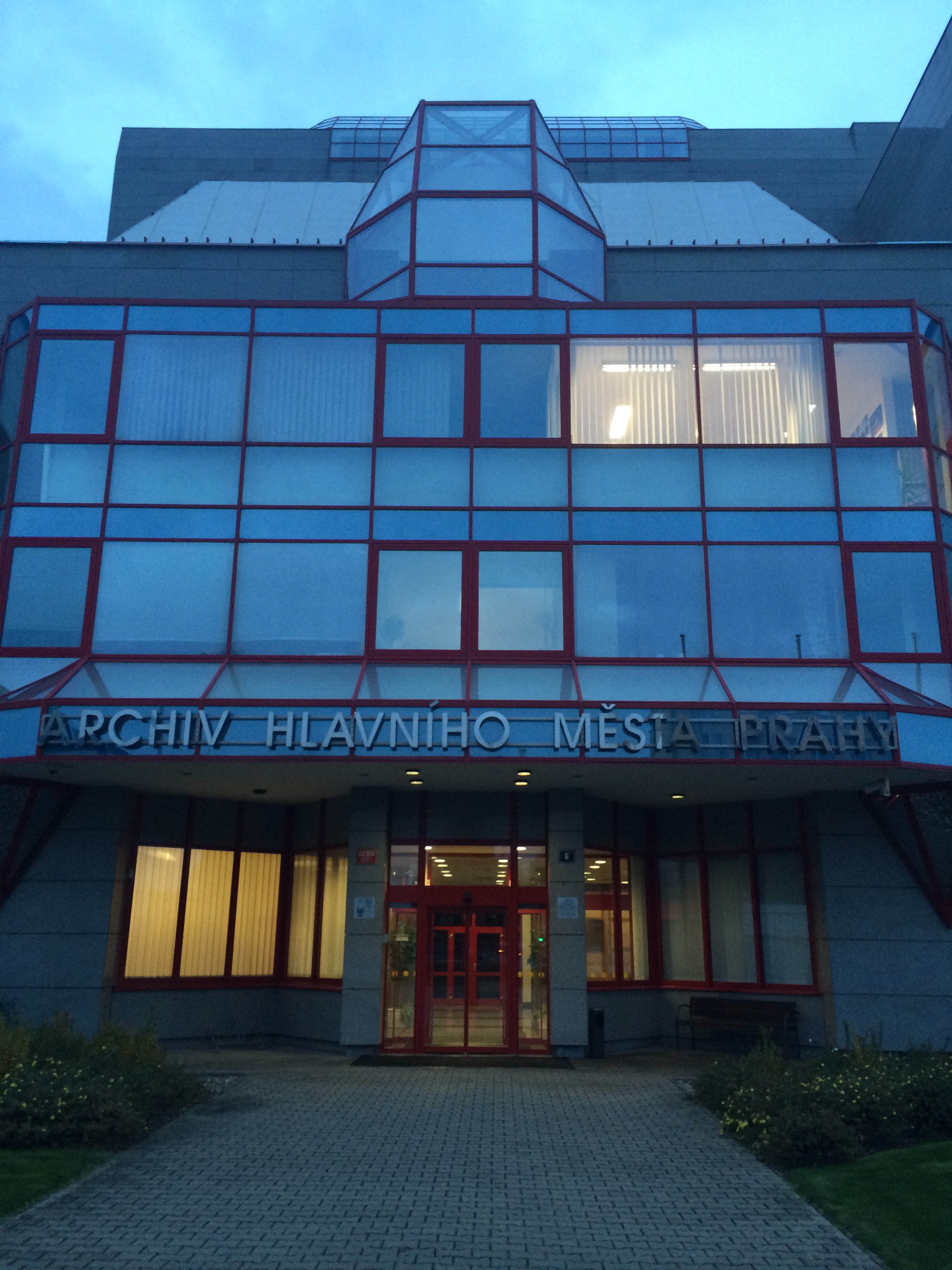 Prague City Archives